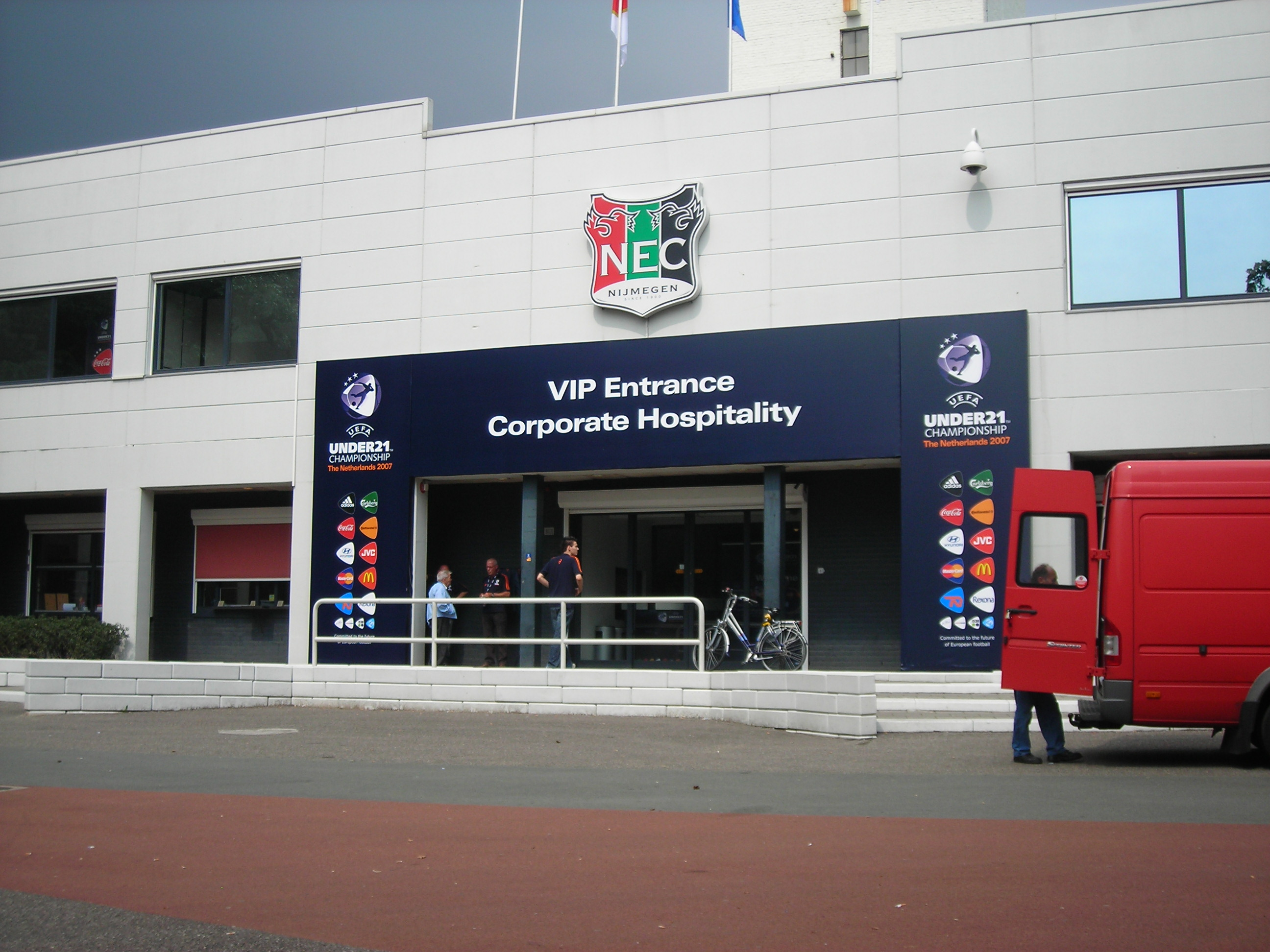 The main entrance of the Goffert stadium, Nijmegen, showing the NEC logo plus the UEFA "Under 21" VIP entrance